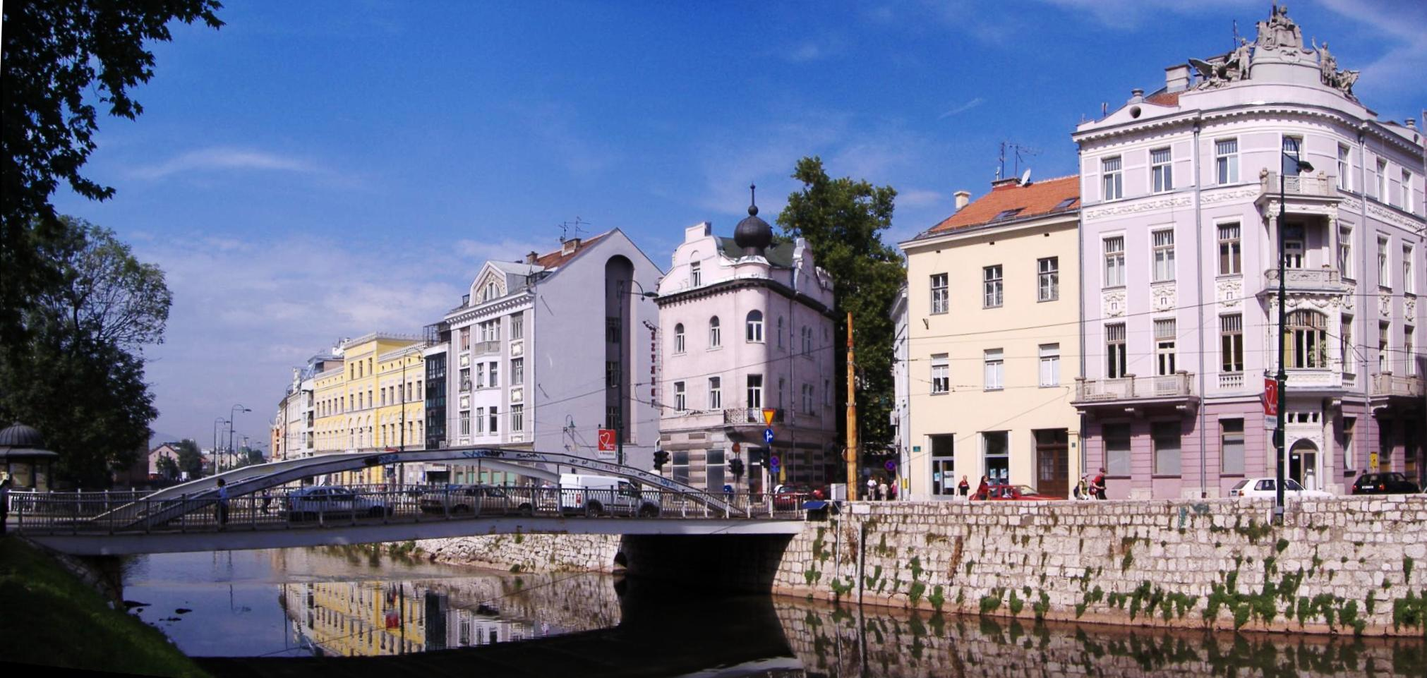 Ćumurija bridge in Sarajevo